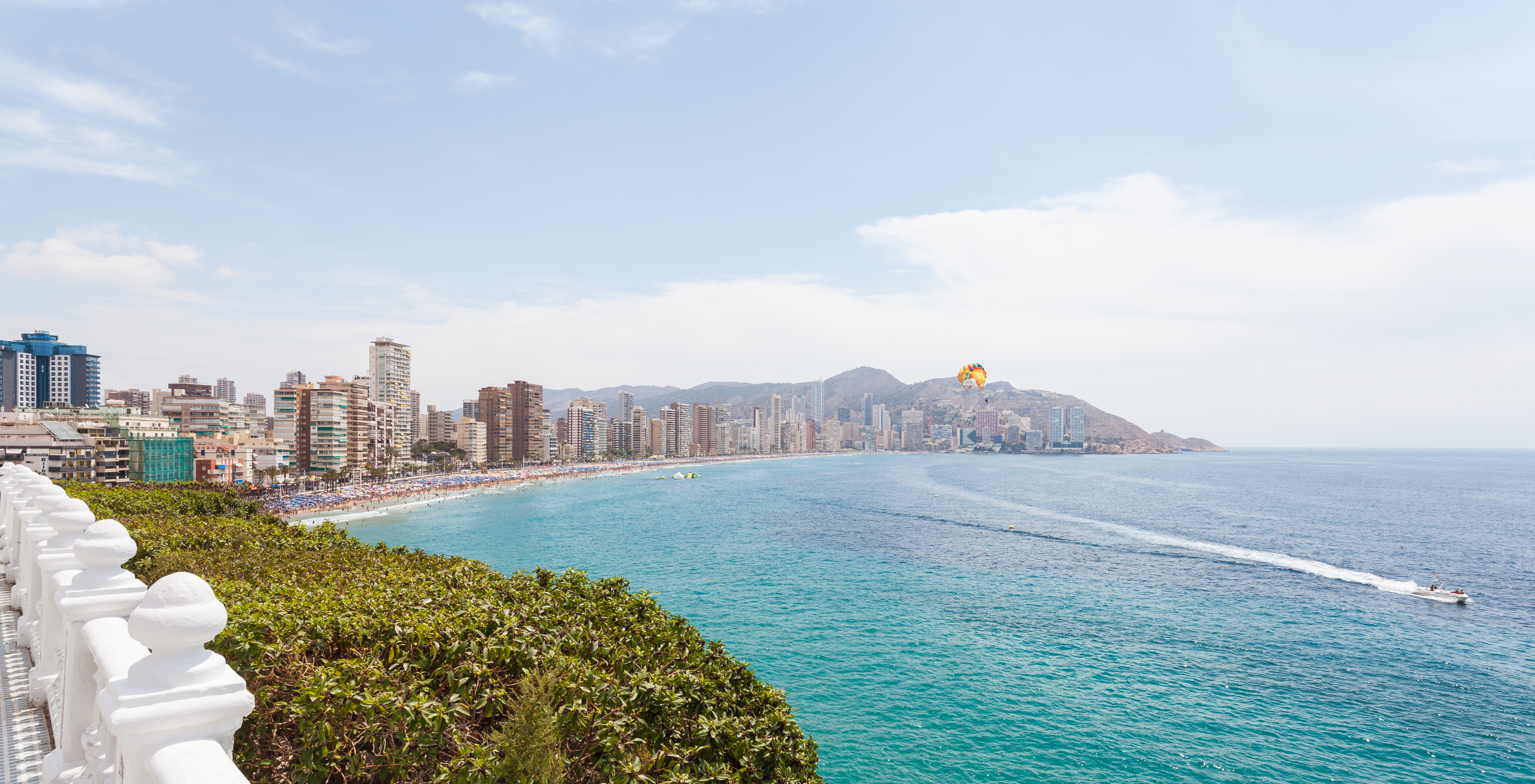 Levante beach, Benidorm, Spain